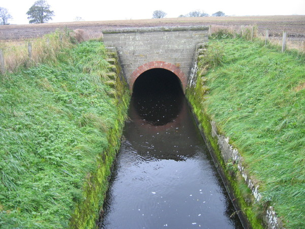 Tunnel watercourse near Thornham Farm This tunnel is part of an intricate network of watercourses/aqueducts that link Reservoirs at Colt Crag, Hallington and Whittle Dene and all were built in the later part of the 1800s. This aqueduct is taking water to the Whittle Dene Reservoirs. Most of the these aqueducts are open water courses but in some areas tunnels are used to ensure that farming activities can still be carried out.